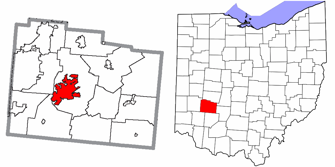 Map highlighting City of Xenia, Greene County, Ohio, United States.